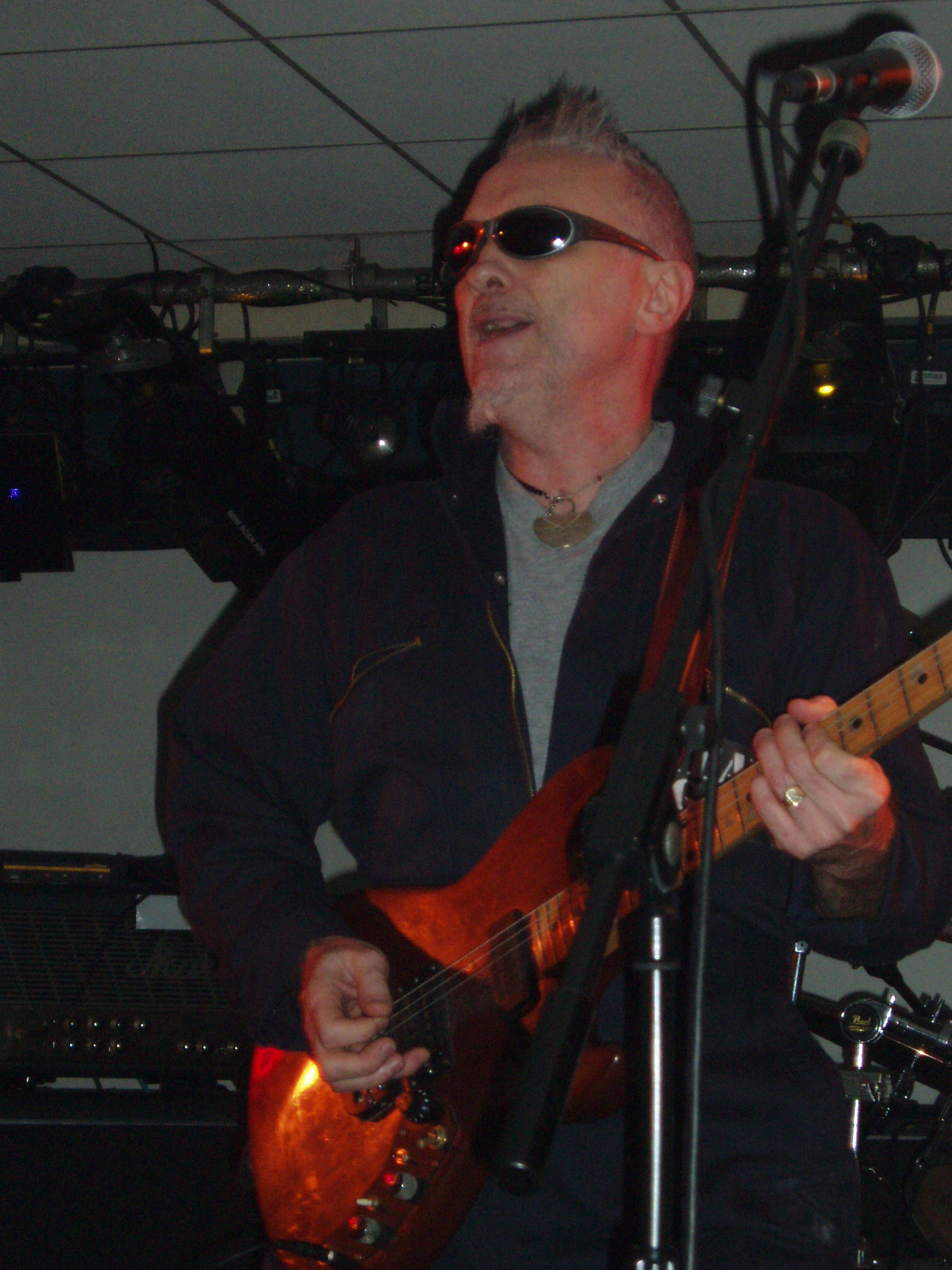 I took this picture myself in Perth, Scotland in December 2004.